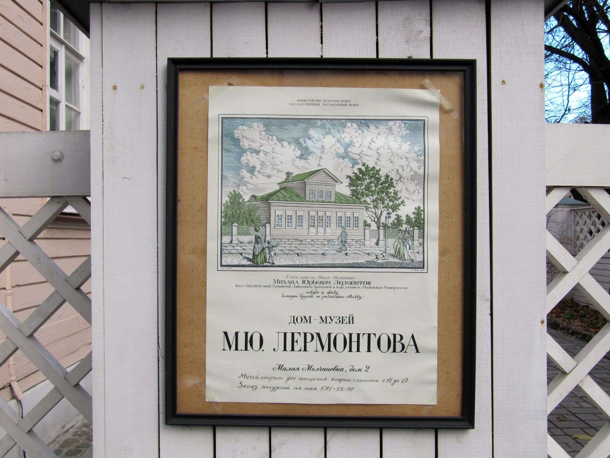 While studying at Moscow University in 1830-1832 Mikhail Lermontov lived in the house of his grandmother Elizabeth Alexeyevna Arsenieva. Moscow, Malaya Molchanovka St.,2. Now here is the museum.